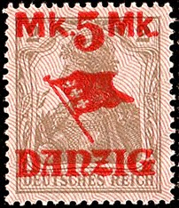 A stamp of the Free City of Danzig.